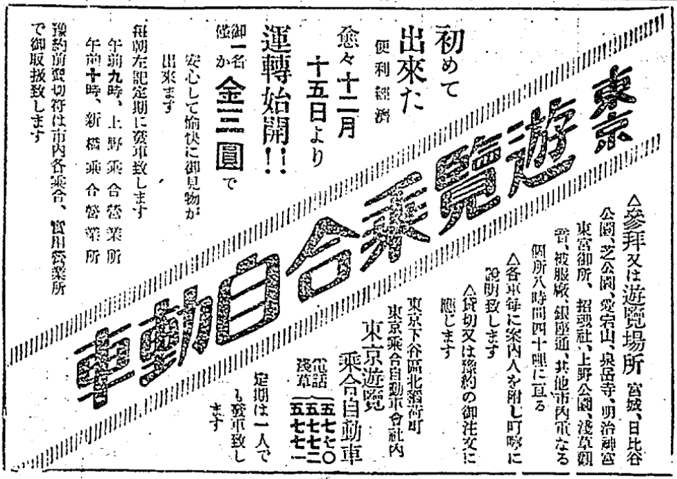 Advertisement of Tokyo Noriai Jidousha